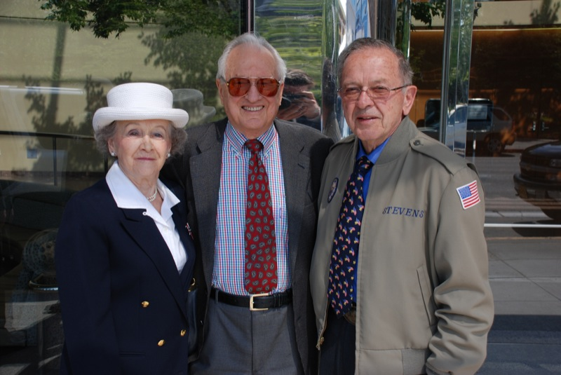 Senator Ted Stevens (right), former Alaska Governor Walter Hickel (center), and the Governor's wife, Ermalee, (left) outside the Egan Center in Anchorage.